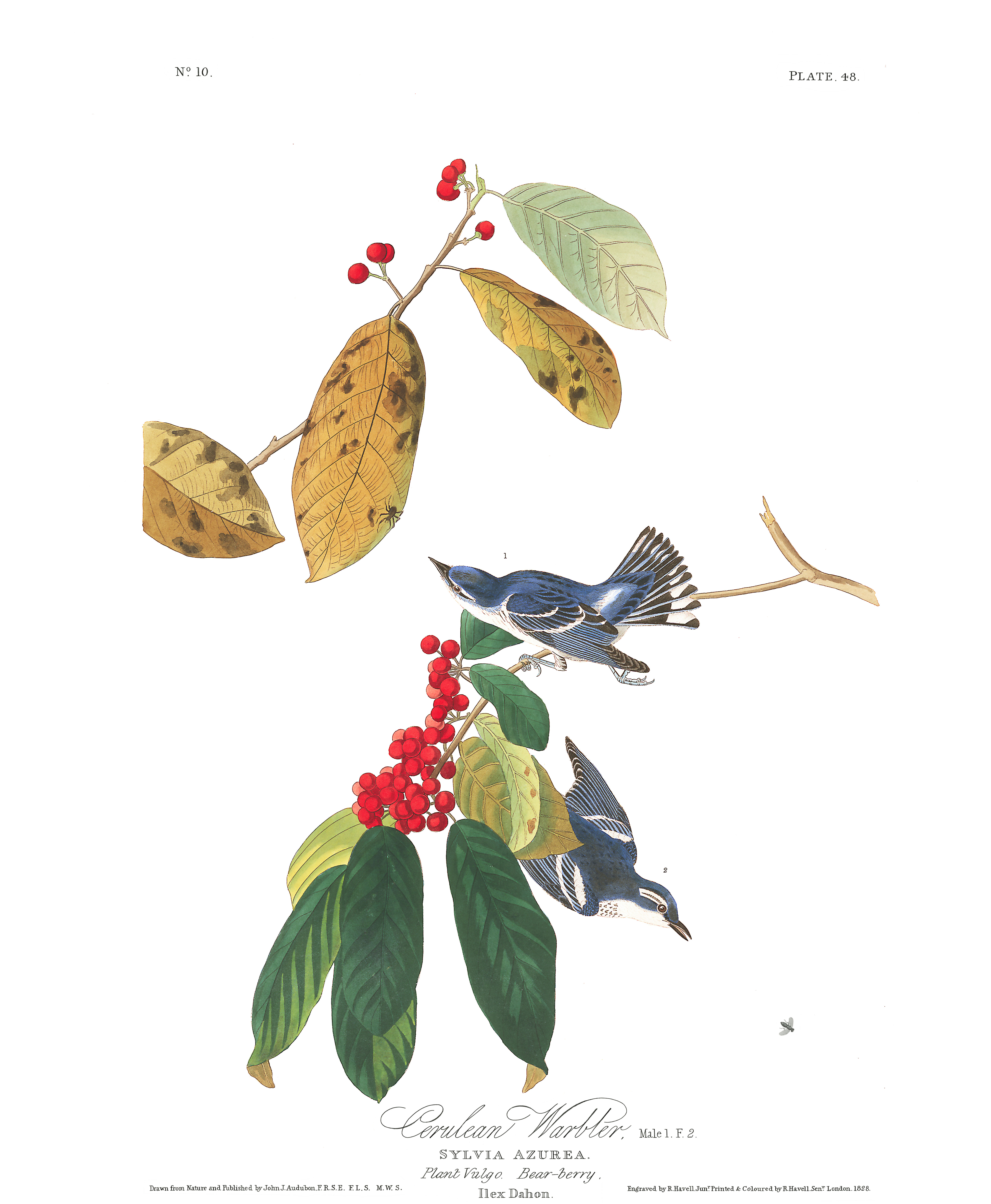 "Azure Warbler" (Cerulean Warbler Setophaga cerulea) in Audubon's Birds of America